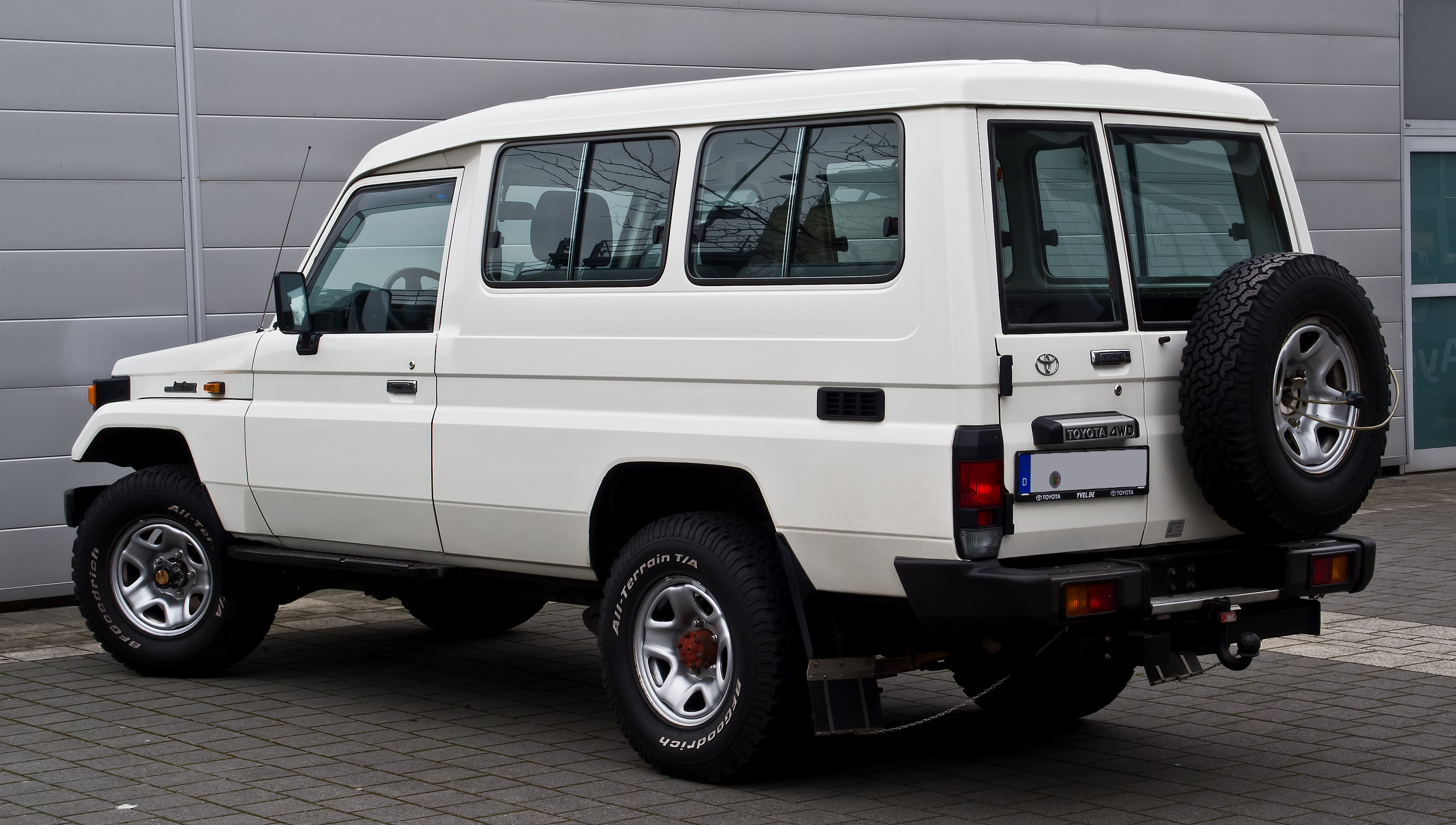 Toyota Land Cruiser (J7, Facelift)